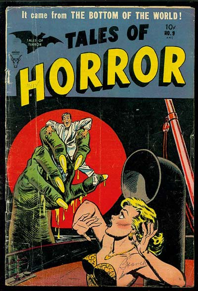 Tales of Horror 09, (February 1954)